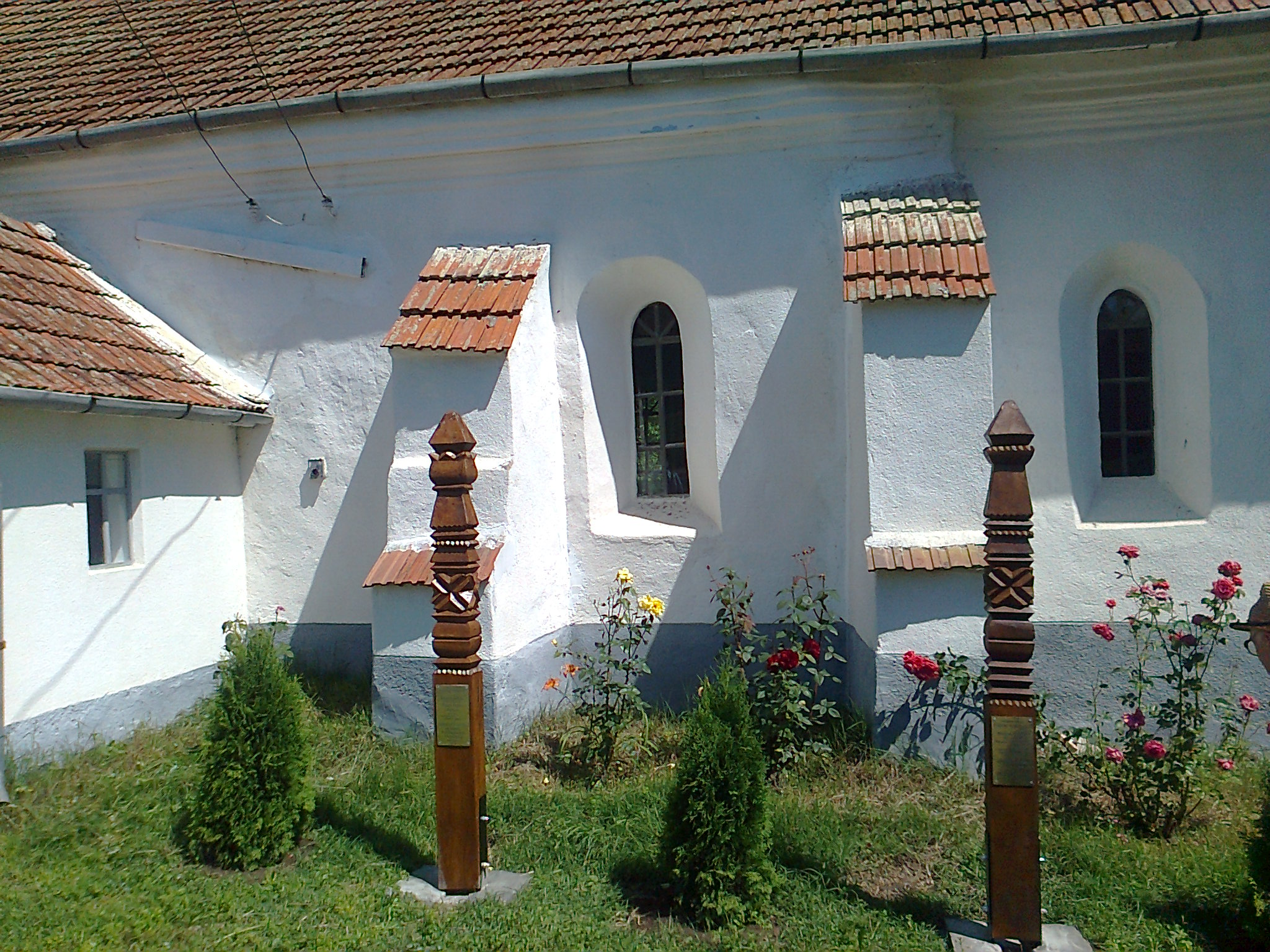 In memoriam PÁVAI V. Miklós (grandfather of Farkas BOLYAI) and PÁVAI Miklós great-grandfather of Farkas BOLYAI) in Silea (Romania)